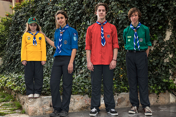 Left to right: Cub Scout, Adult, Rover Scout, Boy Scout